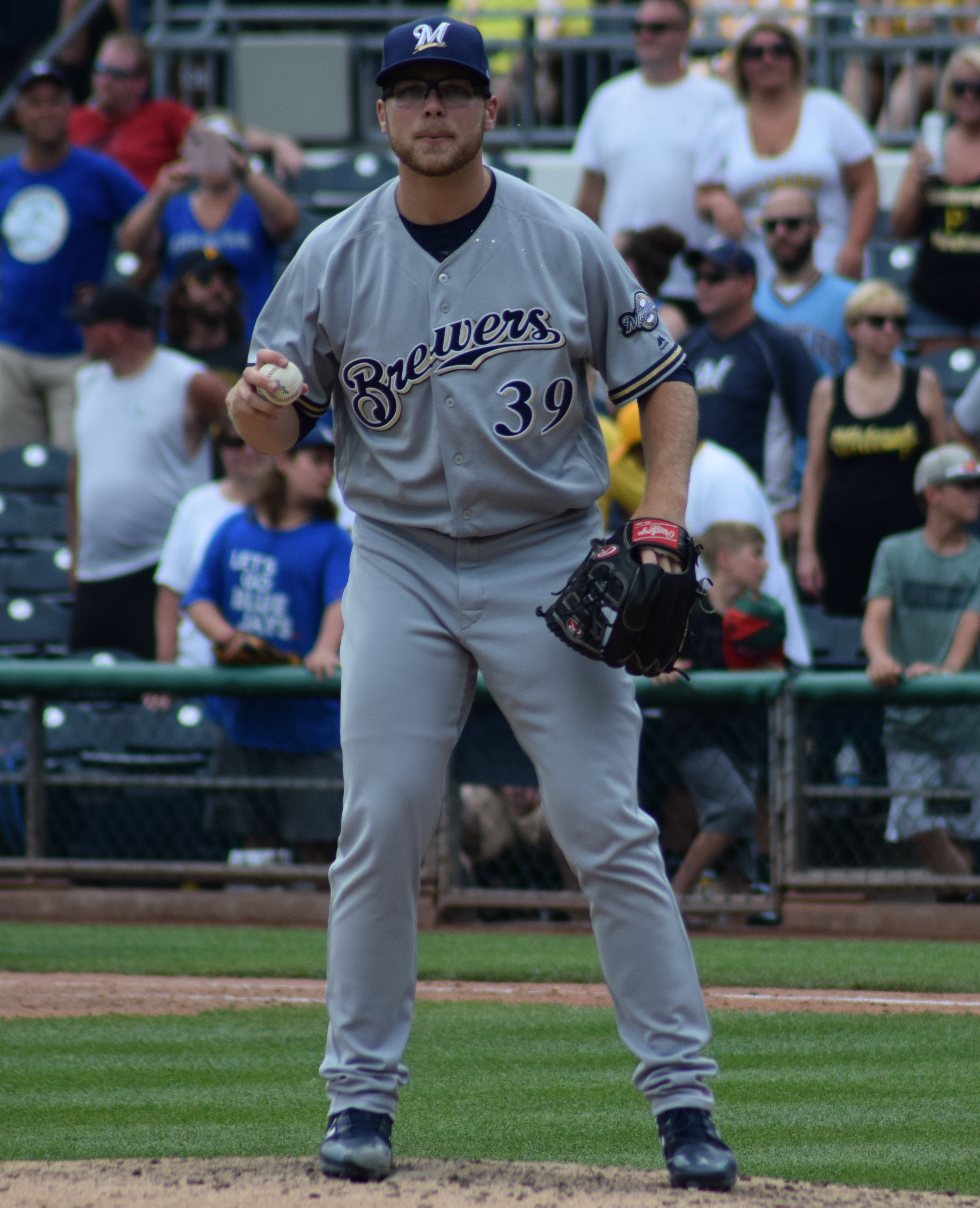 Corbin Burnes on the mound for the Milwaukee Brewers at PNC Park in Pittsburgh in 2018